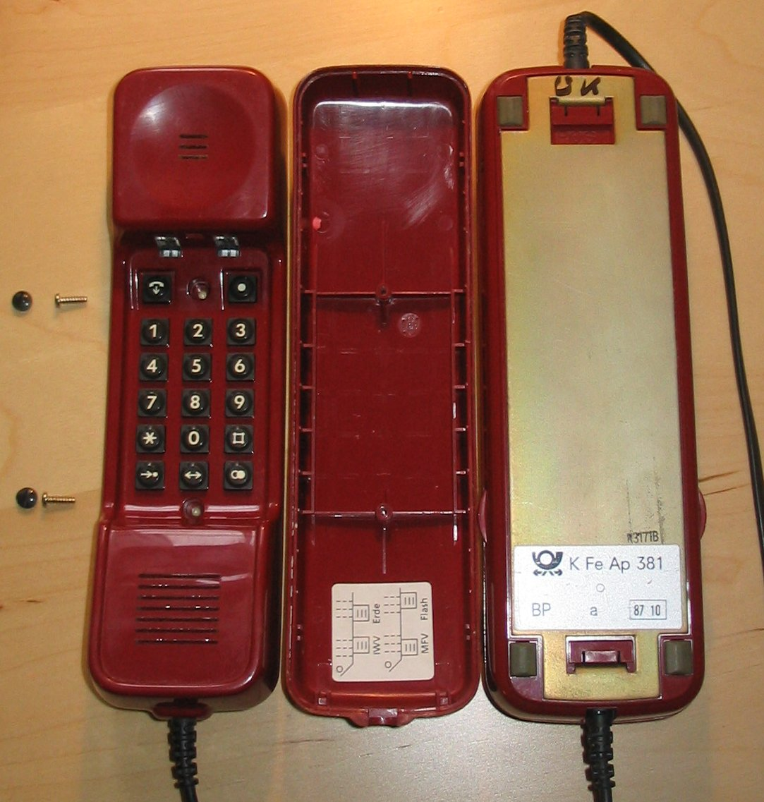 Comfort Pushbutton Telephone type K Fe Ap 381 claret-red by the German Federal Mail, built in October 1987. This Phone was labeled in the late 1980s and early 1990s as Dallas LX